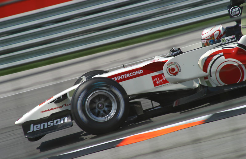 Jenson Button driving for Honda F1 at the 2006 United States Grand Prix.